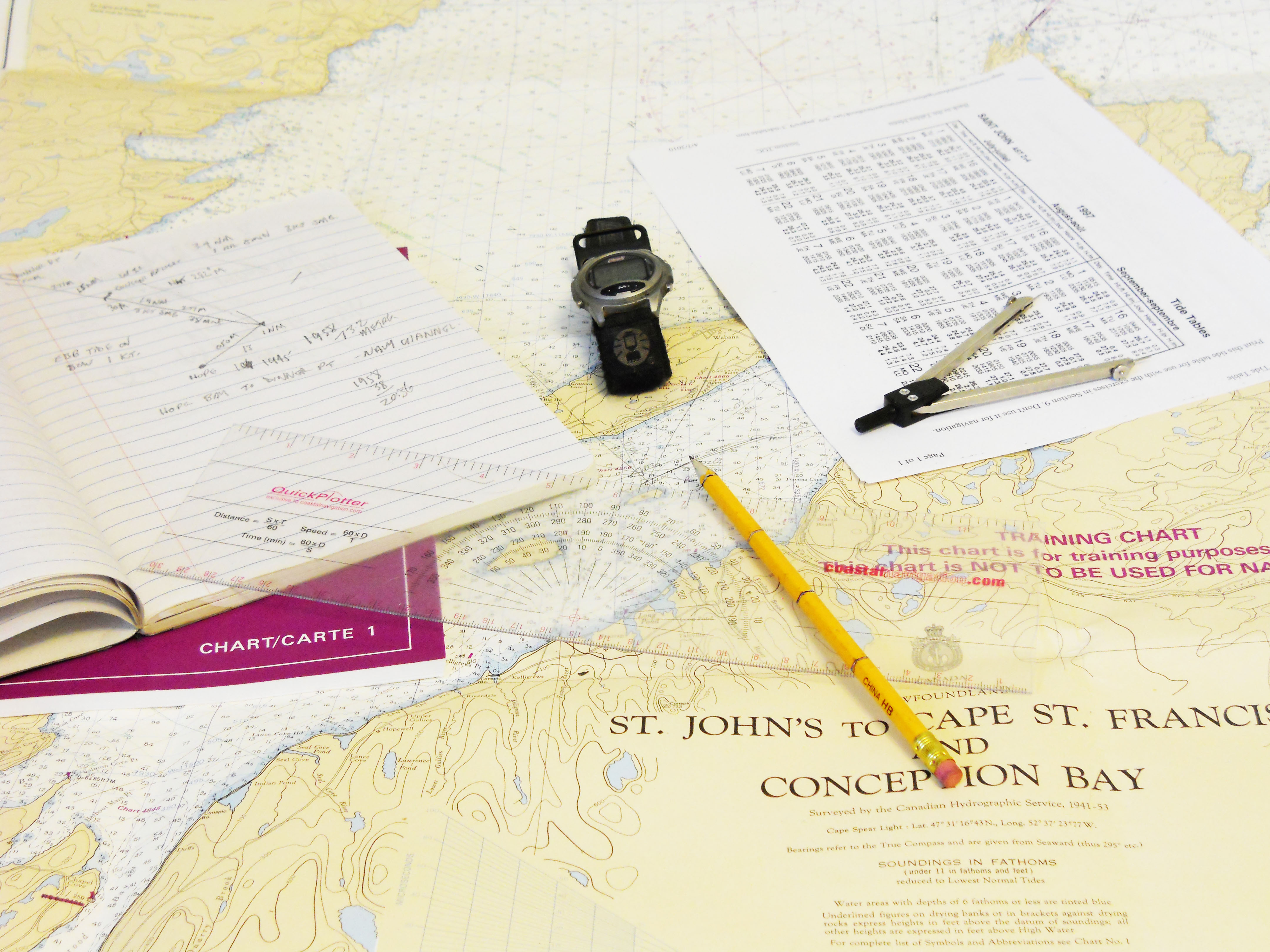 Basic Marine Navigation tools for Dead Reckoning from the Canadian Yachting Association Coastal Navigation course. The objects are photographed on top of a nautical training chart. The purple book is "Chart 1"; on top of Chart 1 is a navigator's notebook with a Dead Reckoning navigation plan at the top of the page. A dead reckoning navigator must be able to tell time, so he has a rugged watch. He needs a Tide Table in tidal waters so he can determine the effects of tidal currents on the vessel's progress. Dividers are used to meaure distance. A plotter is used to draw course lines, bearings, and fixes on the chart. The navigator's pencil is marked off in 10 nautical mile intervals, to make estimating and double-checking easy. The tip of the pencil points to an area on the chart with several DR course lines, bearings, and fixes plotted.